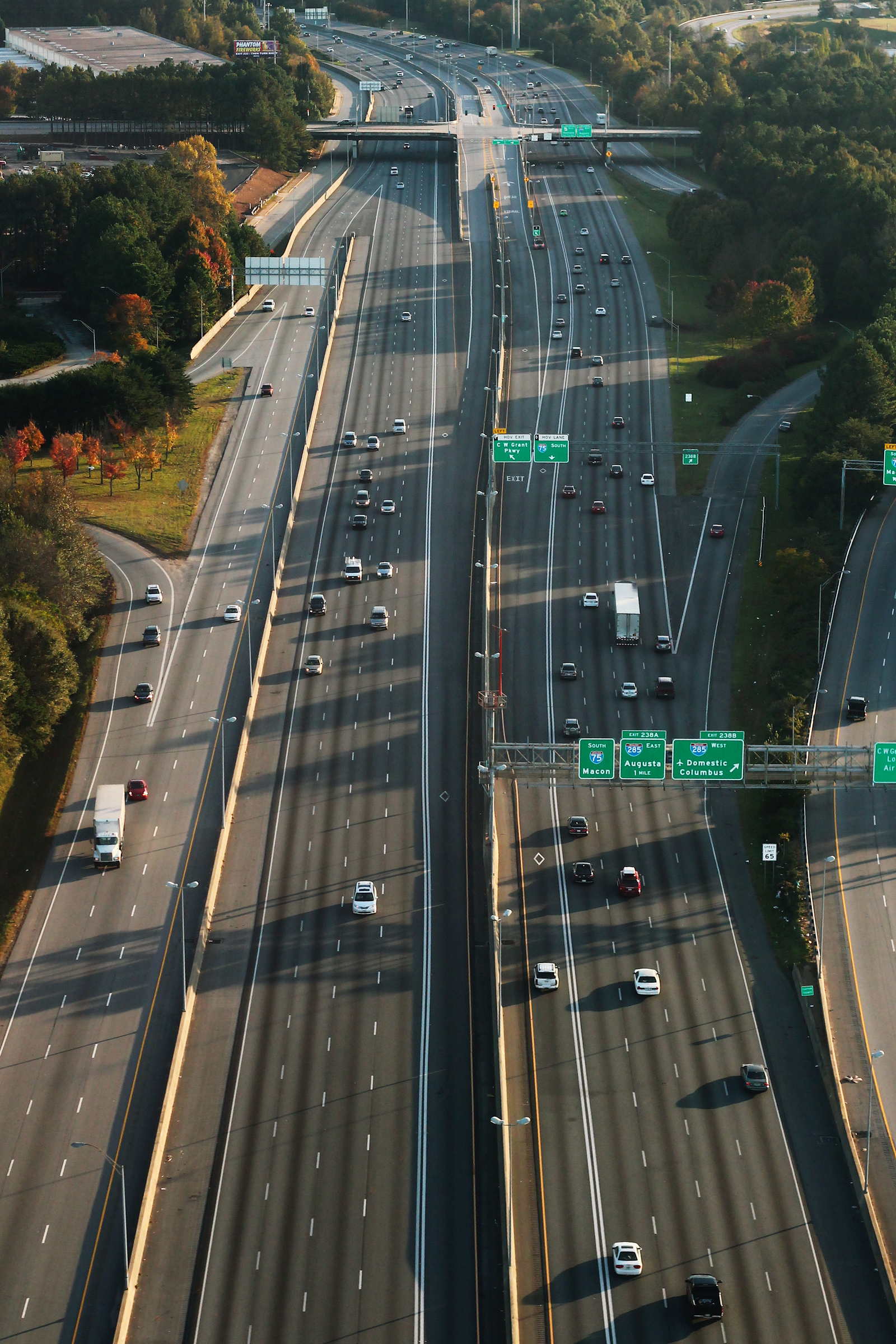 A view of Interstate 75 during landing at Atlanta, Georgia.